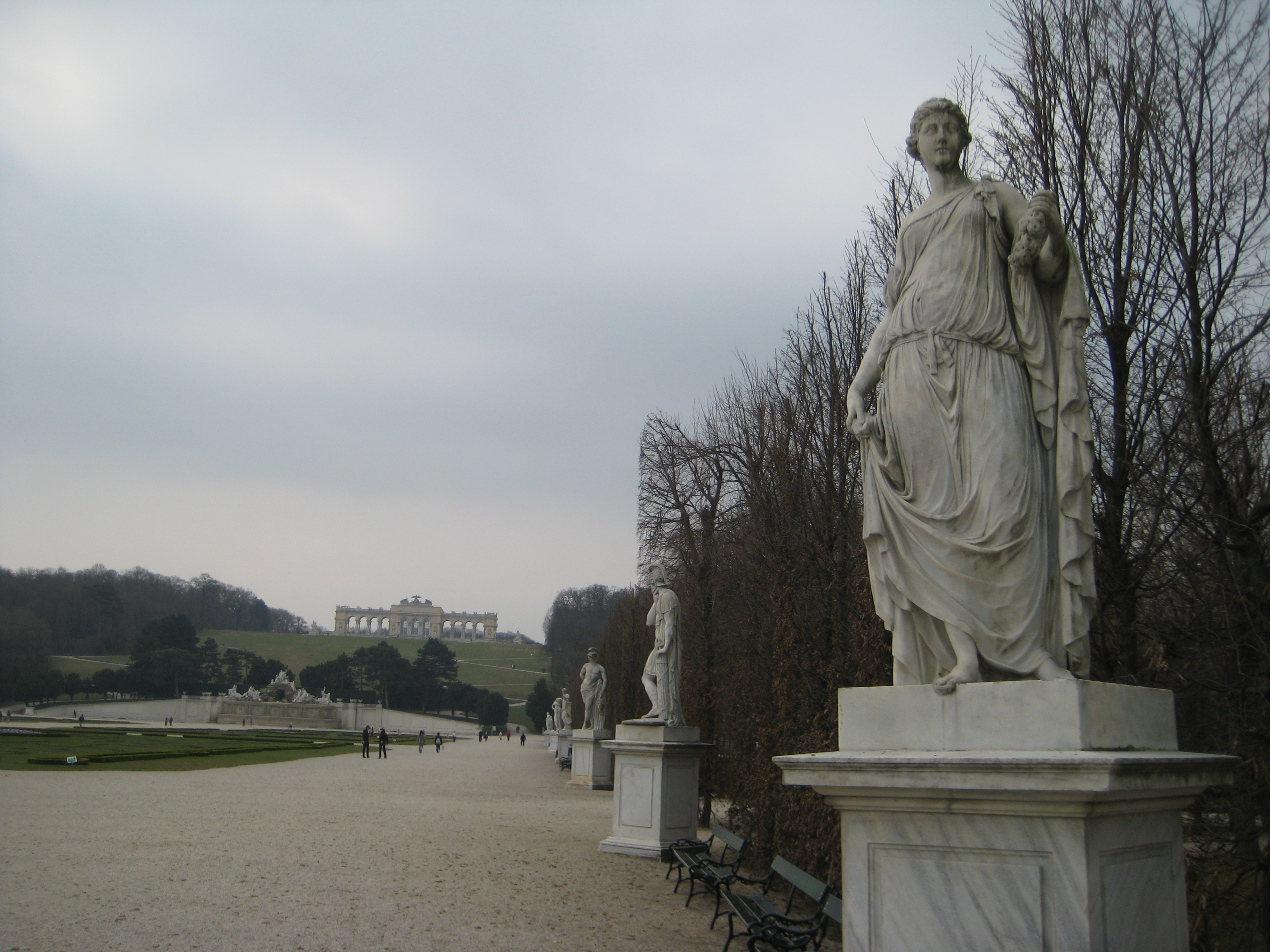 Sculpture at the Schonbrunn Palace, Vienna